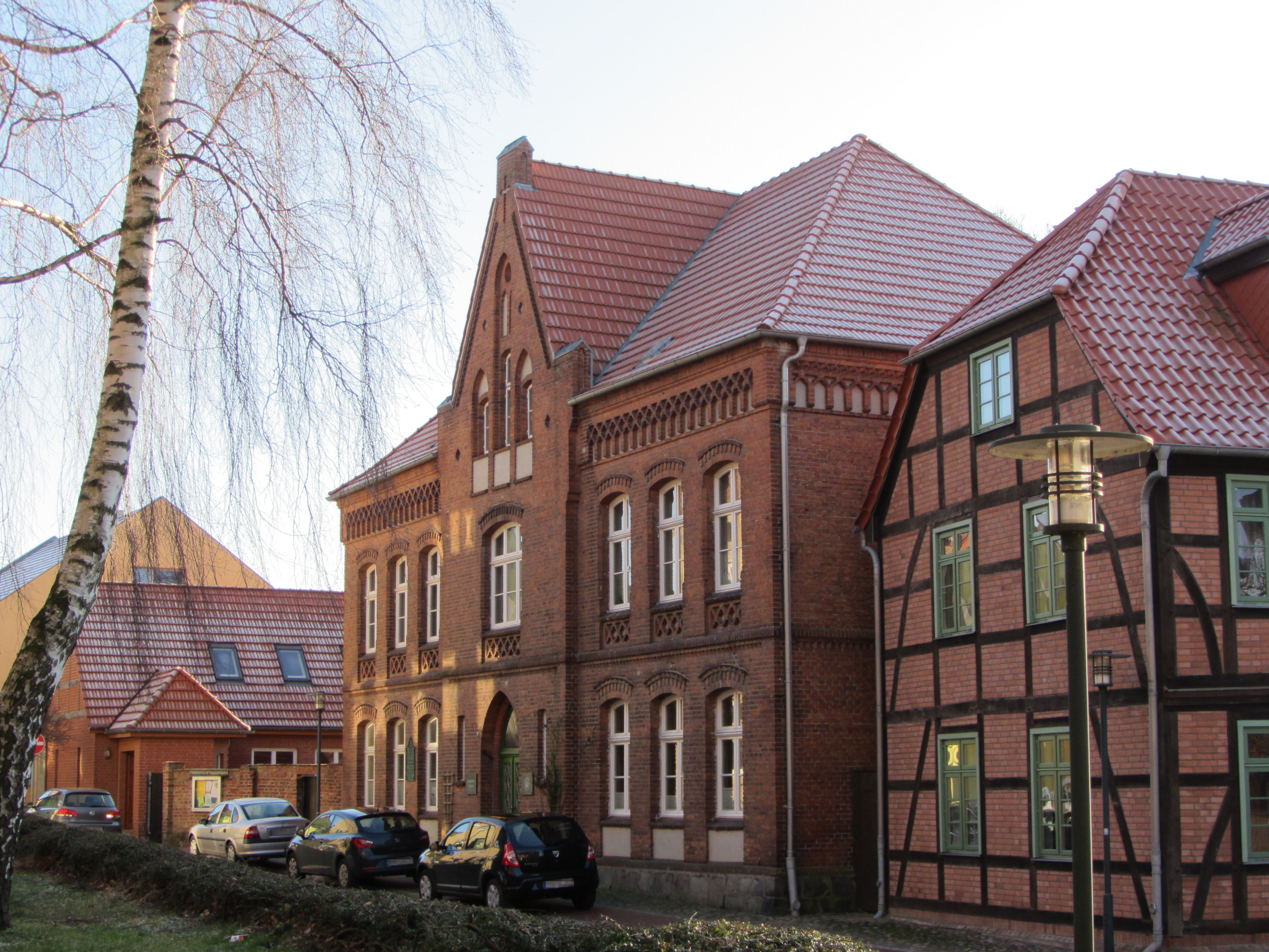 Rectory in the Mühlenstraße in Neubukow, district Rostock, Mecklenburg-Vorpommern, Germany